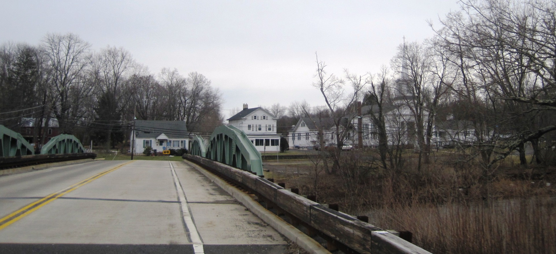 Photo of South Branch, New Jersey, an unincorporated community within Hillsborough Township, Somerset County. Photo taken along eastbound Studdiford Drive (County Route 606) in Branchburg Township before its crossing of the South Branch Raritan River.